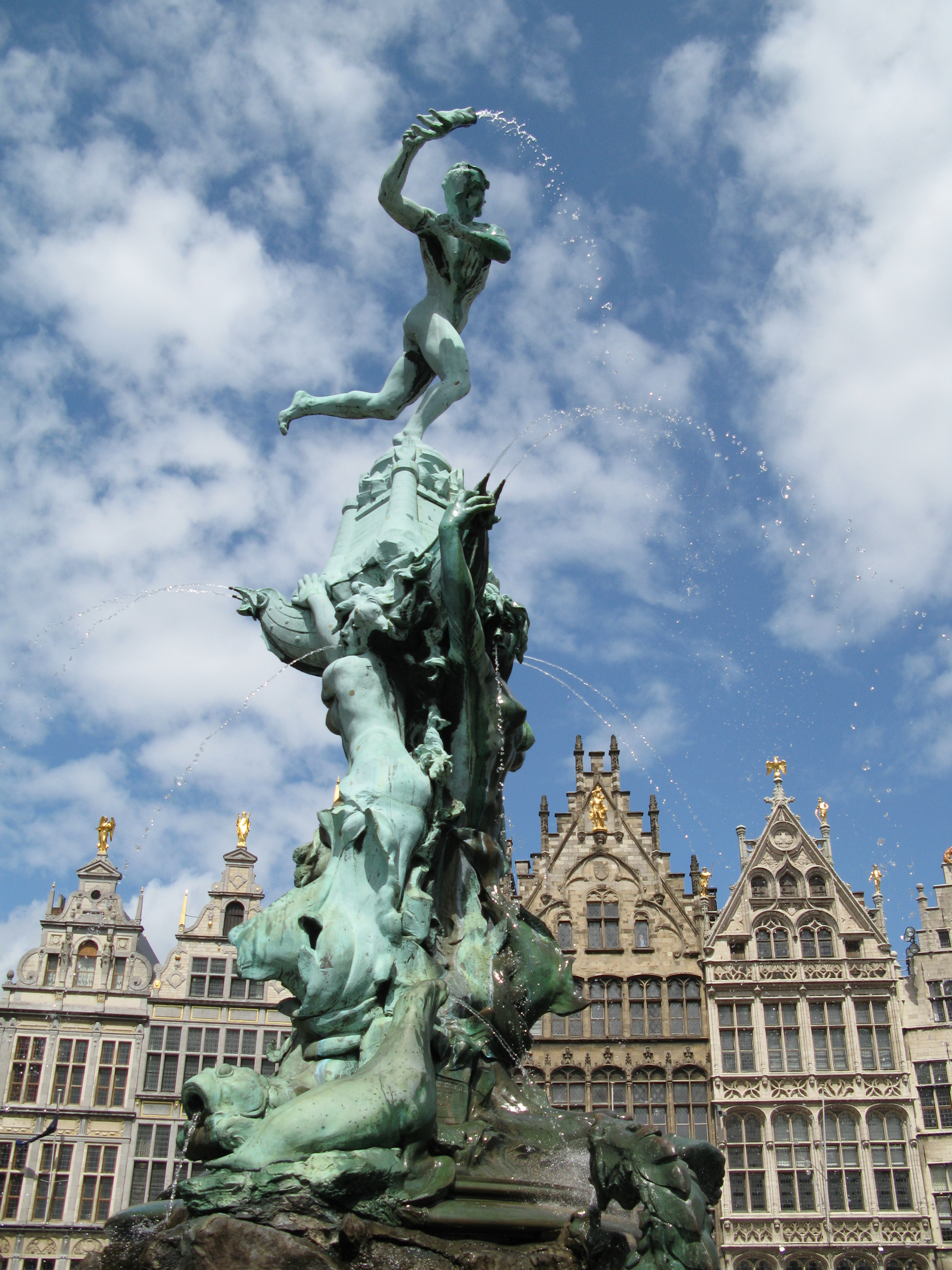 Antwerp: In the middle of the 'Grote Markt' stands the Brabo fountain. The statue was made by sculptor Jef Lambeaux in 1887 [1]